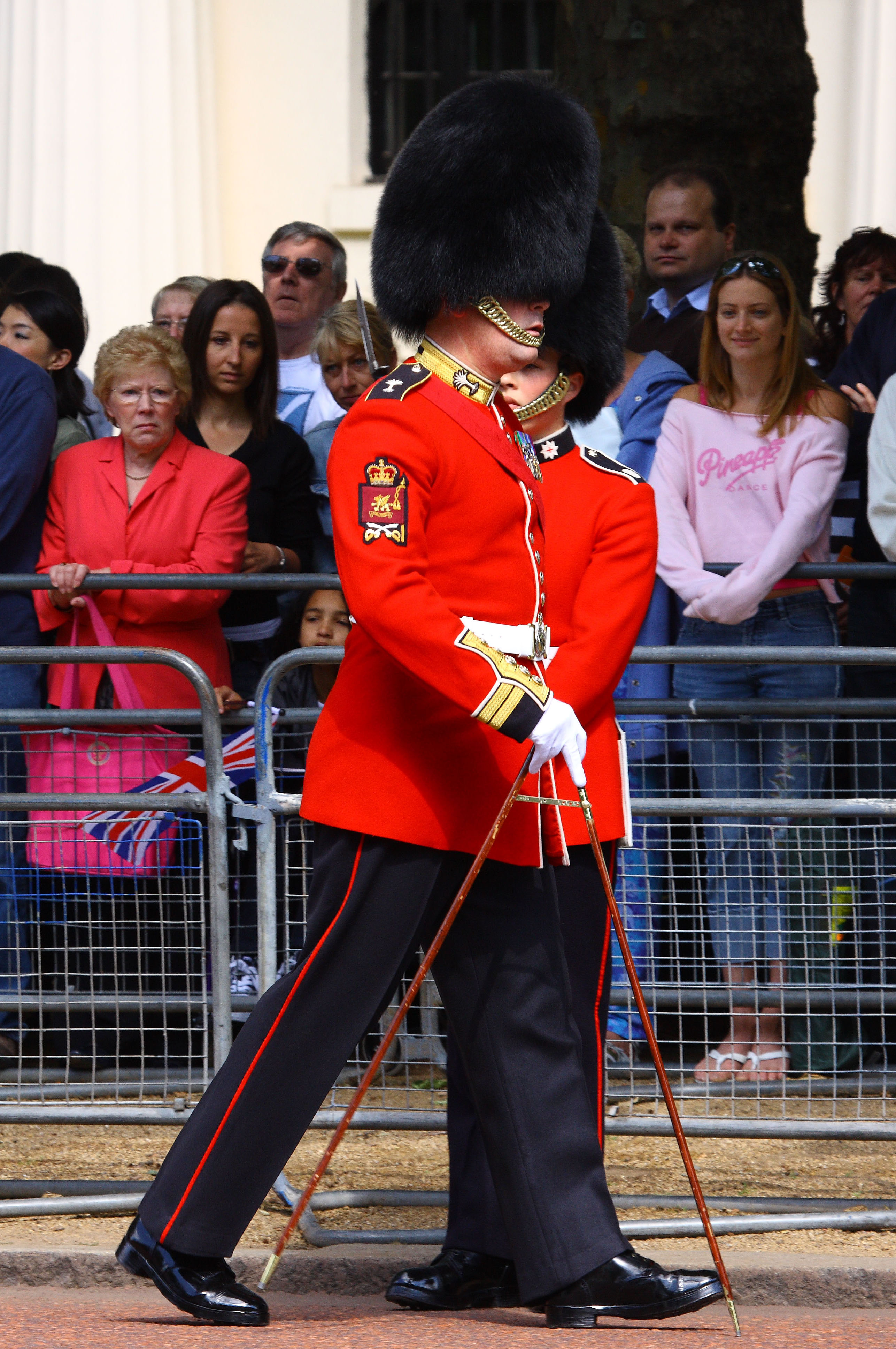 Trooping The Colour ceremony, London, 14th June 2008. The Colour Sergeant of the Welsh Guards (red sash and crown above shoulder insignia) uses his pace stick as a measure to pace out an exact distance between each Guardsman.